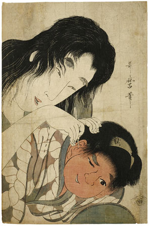 Kitagawa Utamaro Yamauba and Kintarō 1801-1803 Signed: Utamaro hitsu; Publisher’s logo (Tsutaya Jūsaburō); ōban, 38.0 x 24.5, nishiki-e This half-portrait (hanshin-e) shows the mountain woman Yamauba holding her adopted son Kintarō on her lap and cleaning his ear with a hairpin. Sotheby’s, London (February 1976) RK #78